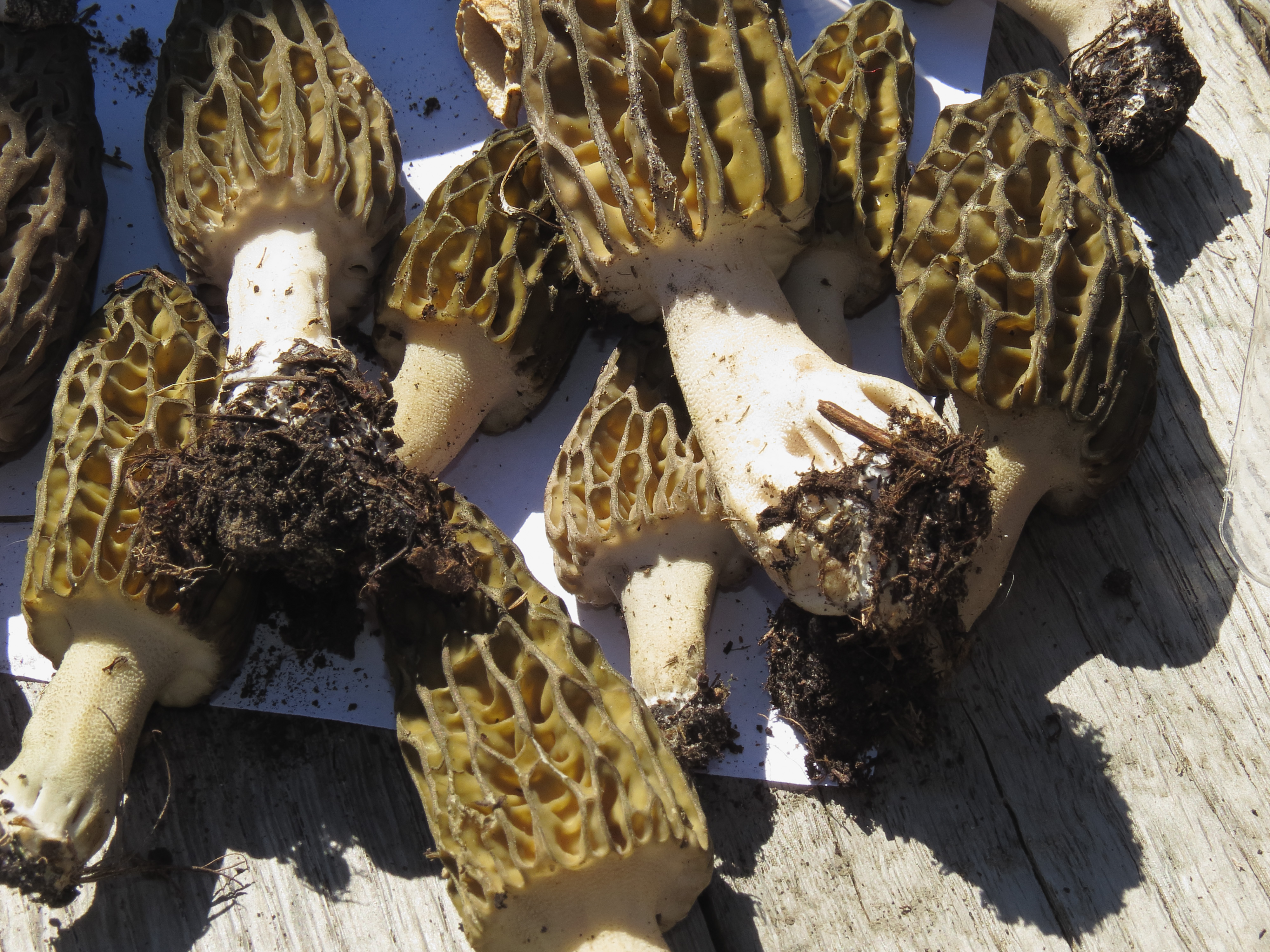 Mushroom exhibition in Shevchenko park, Kiev, Ukraine. Morchella conica